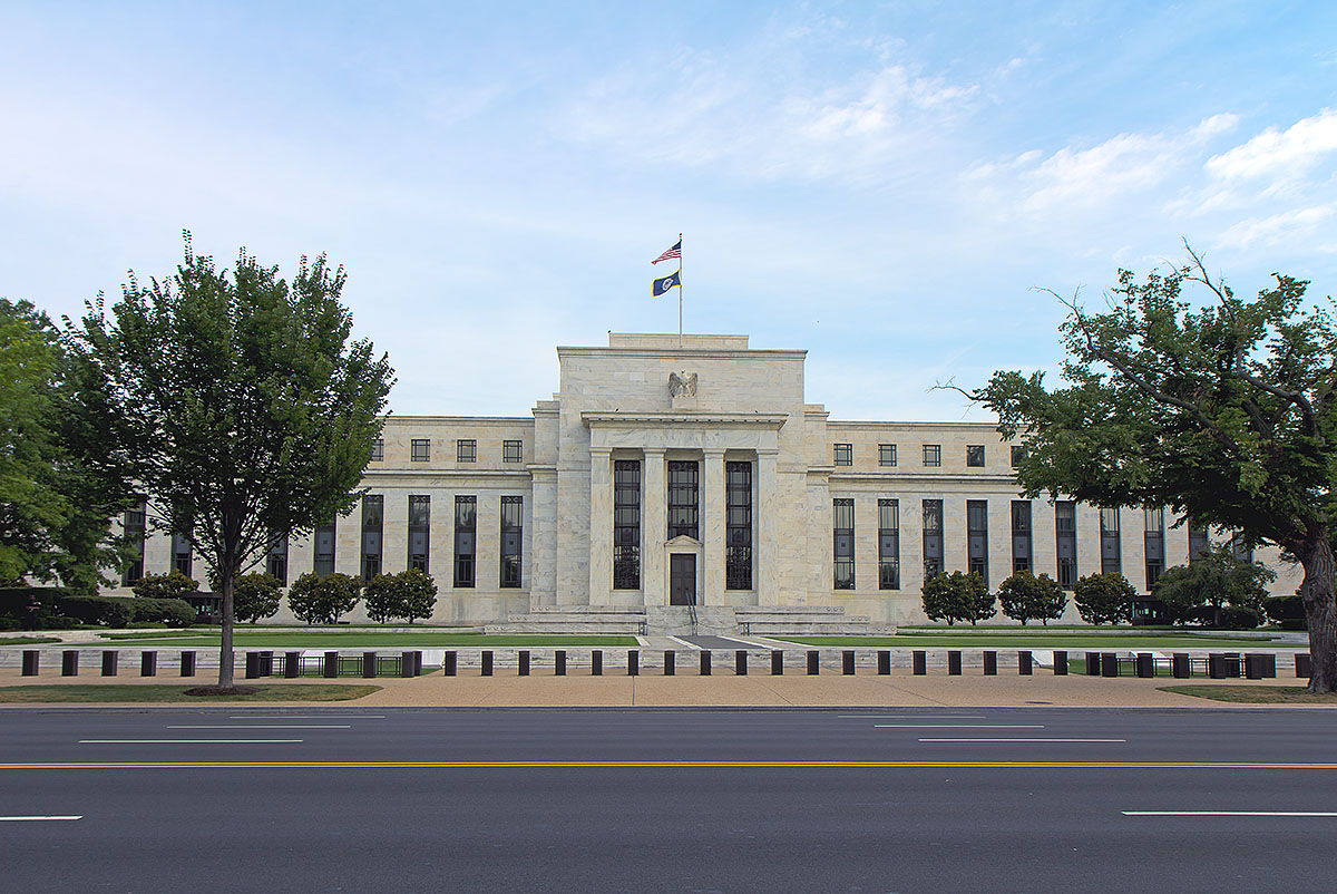 Federal Reserve, Washington D.C.